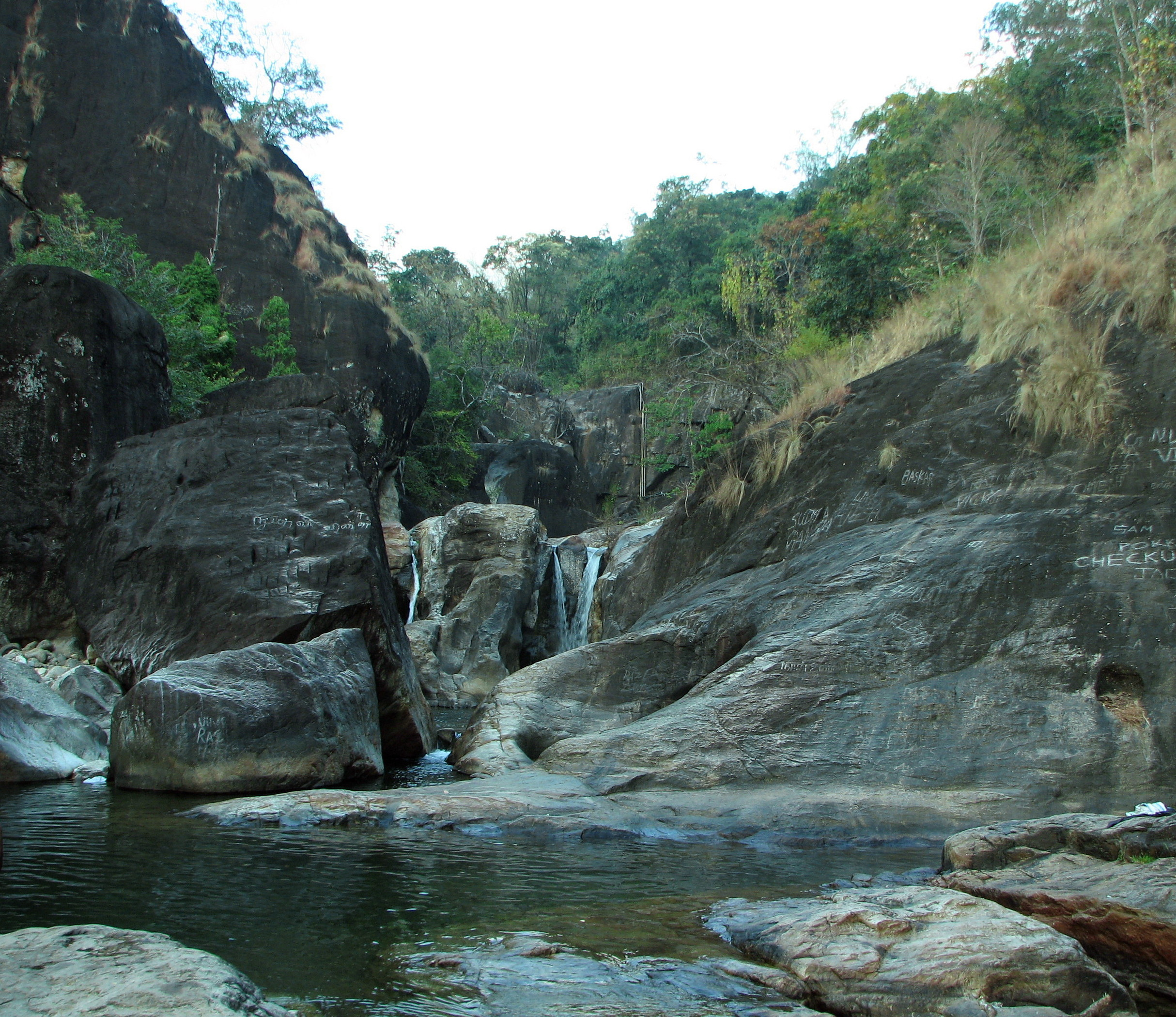 self-made image ; Author's Name : Infocaster